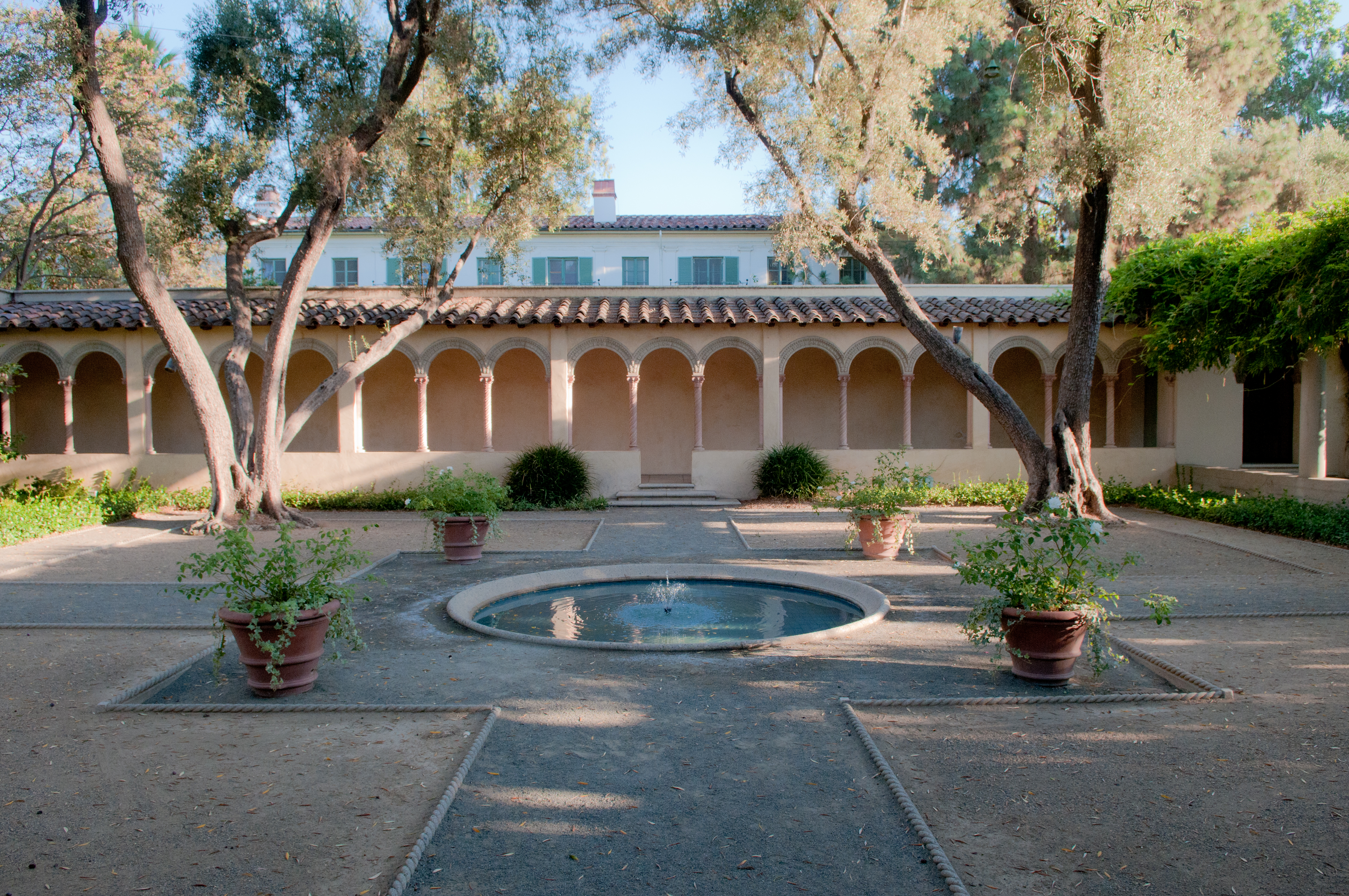 Scripps College for Women Margaret Fowler Garden